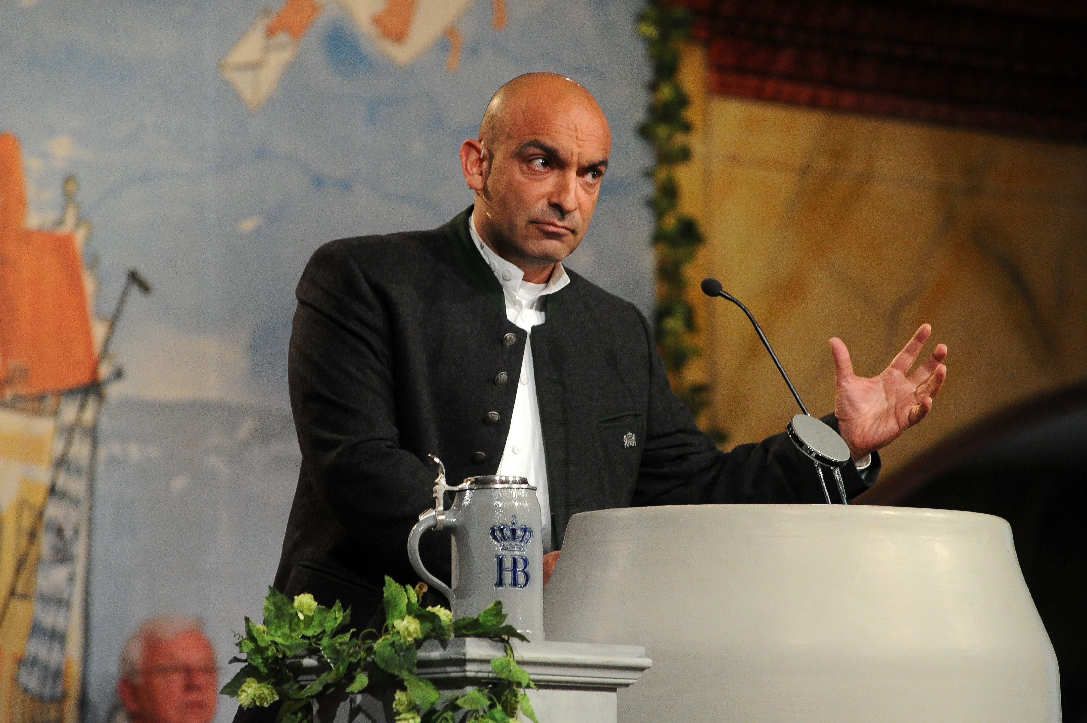 Bavarian cabaret artist Django Asül at his Maibock Speech 2015 in the Munich Hofbräuhaus